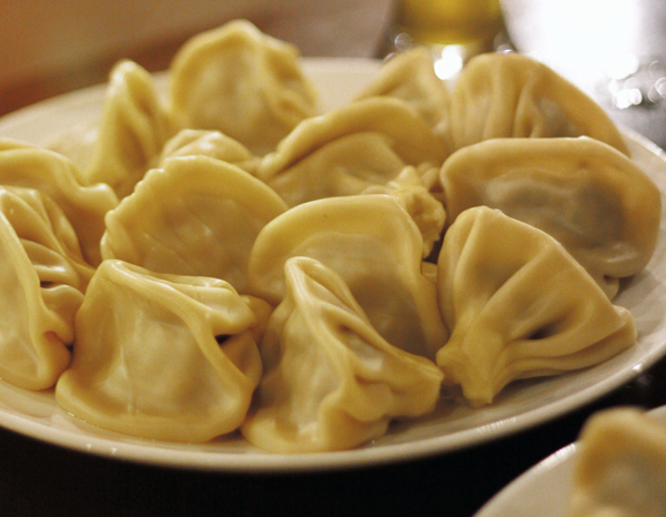 Khinkali